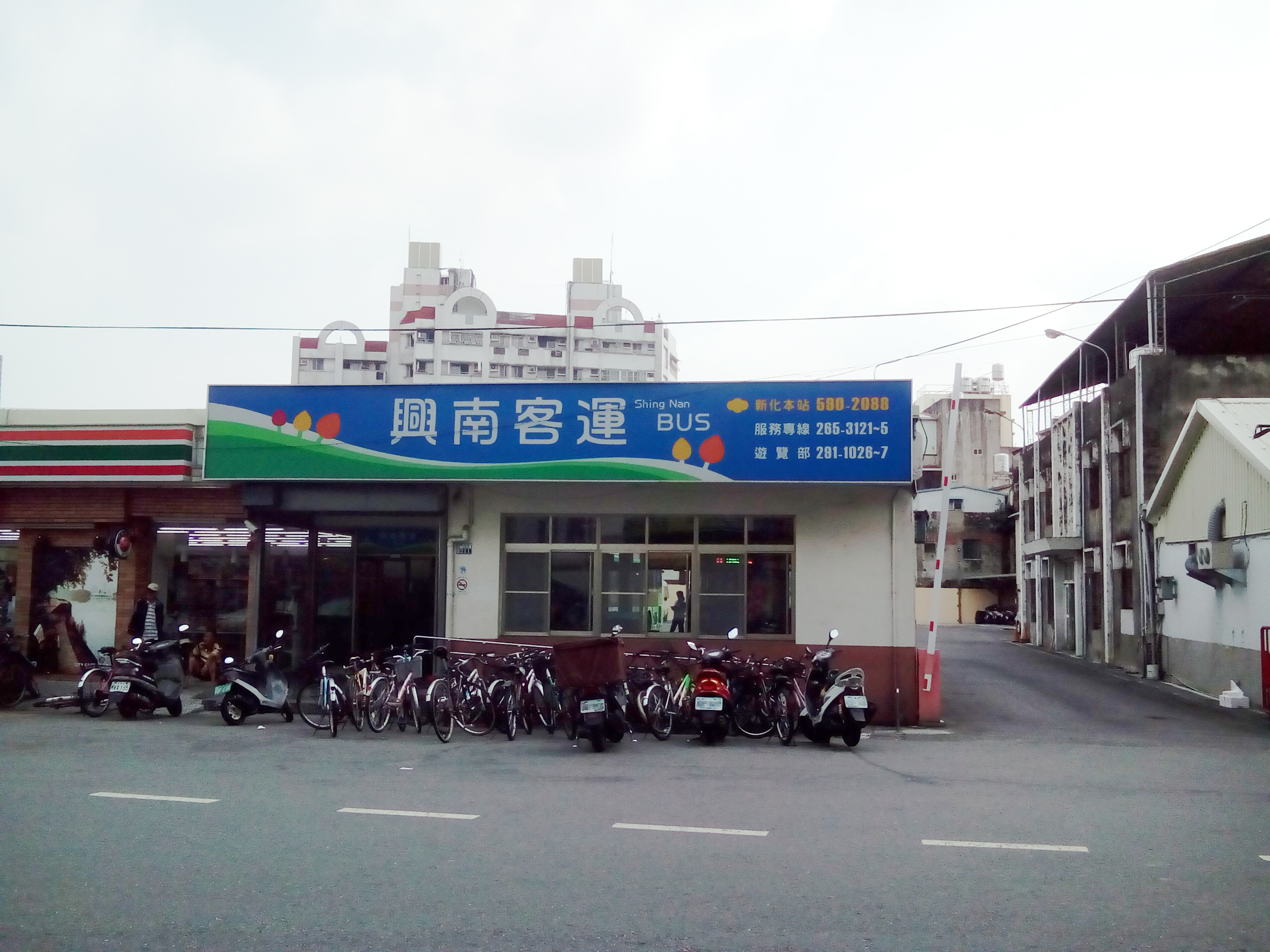 Shing Nan Bus Xinhua Station